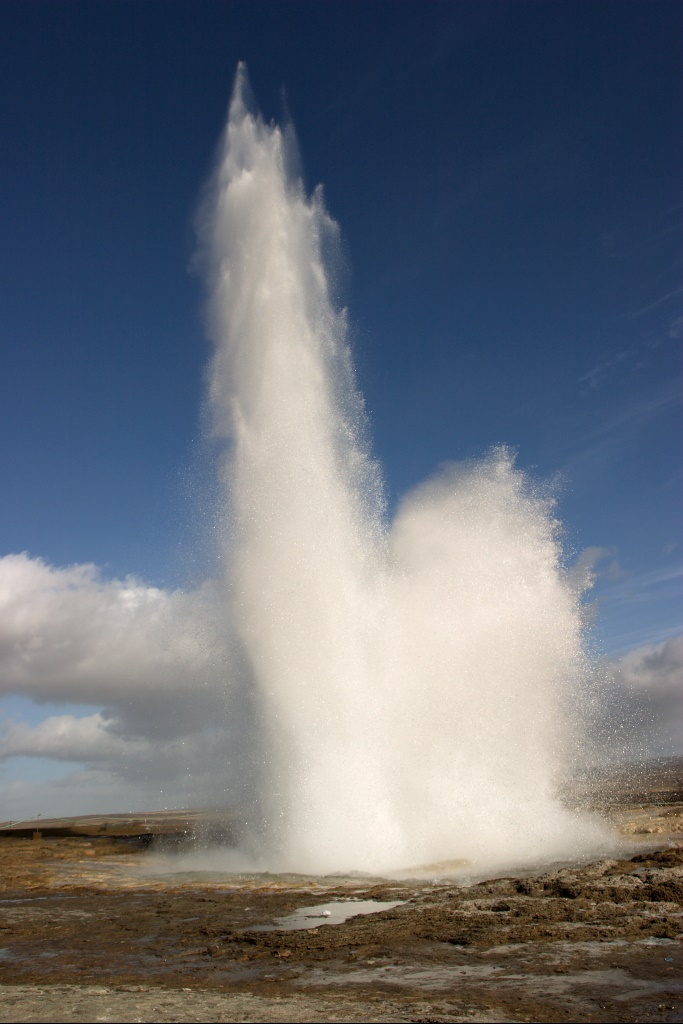 Strokkur geyser, Iceland.